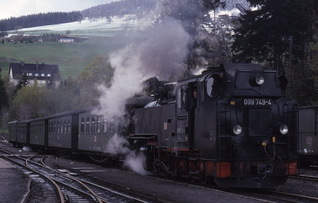 A visit to the 750mm gauge line from Cranzahl to Kurort Oberwiestenthal in May 1995. Planned around a 3 minute turnaround at the end of the branch, as a result a different loco each way was use. Seen here on the return leg, 099 749-4 on train 6926, 19:17 Kurort Oberwiesenthal to Cranzahl. Date taken 14 May 1995. (Number 099 749-4 = 99 1785-7 = 99 785) The 17.4km line was opened in 1897, known as the Fichtelbergbahn and was an important freight and passenger line. Owned by German Railways under the various disguises until 1998 when it was taken over as a private operaion. Current owner is Sächsische Dampfeisenbahngesellschaft mbH (SDG)